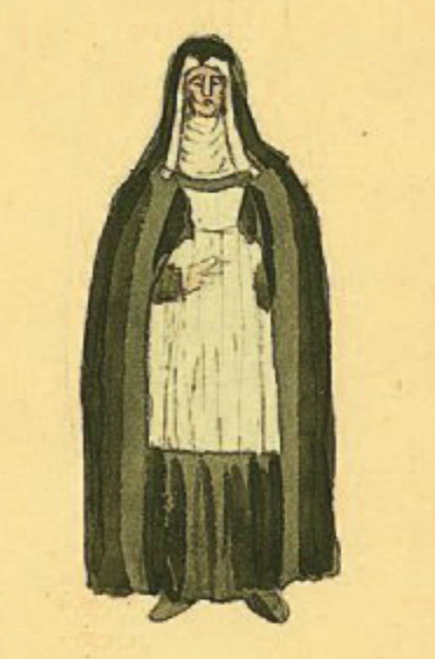 A 17th or 18th-century nun of Saint Servatius Hospital in Maastricht, the Netherlands. Drawing by Philippe van Gulpen, c 1850.